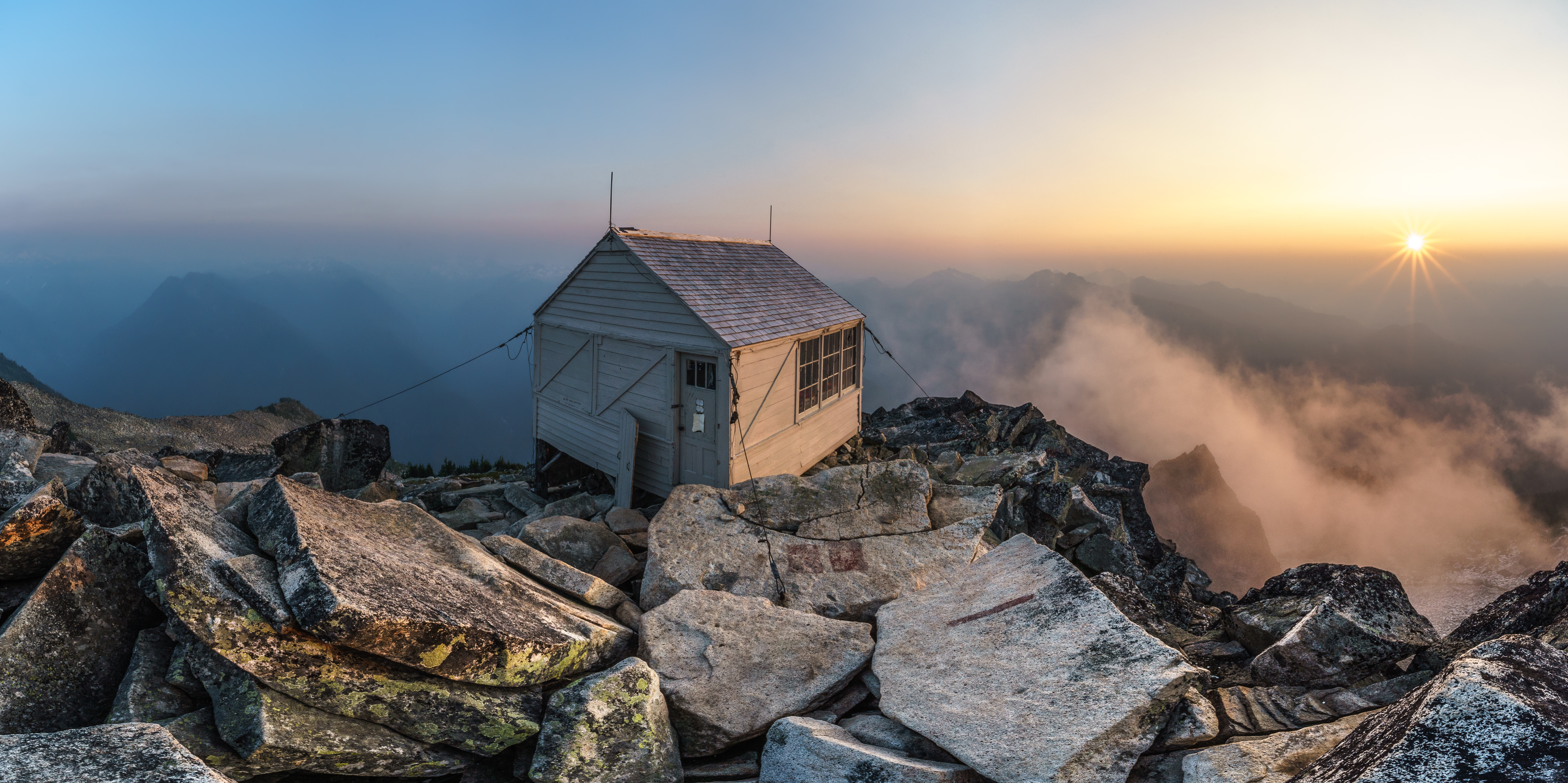 Built in 1932, and perched just outside the North Cascades National Park in northern Washington State, the Hidden Lake Lookout was used until decommissioned by the Forest Service sometime around 1953, and has now stood as a historic monument longer than it served its original function as a fire lookout. In 1987, it was added to the National Register of Historic Places.